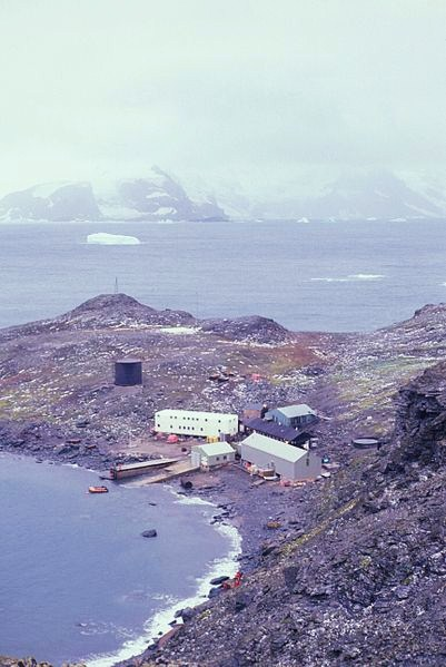 Credit: NOAA NMFS SWFSC Antarctic Marine Living Resources (AMLR) Program.